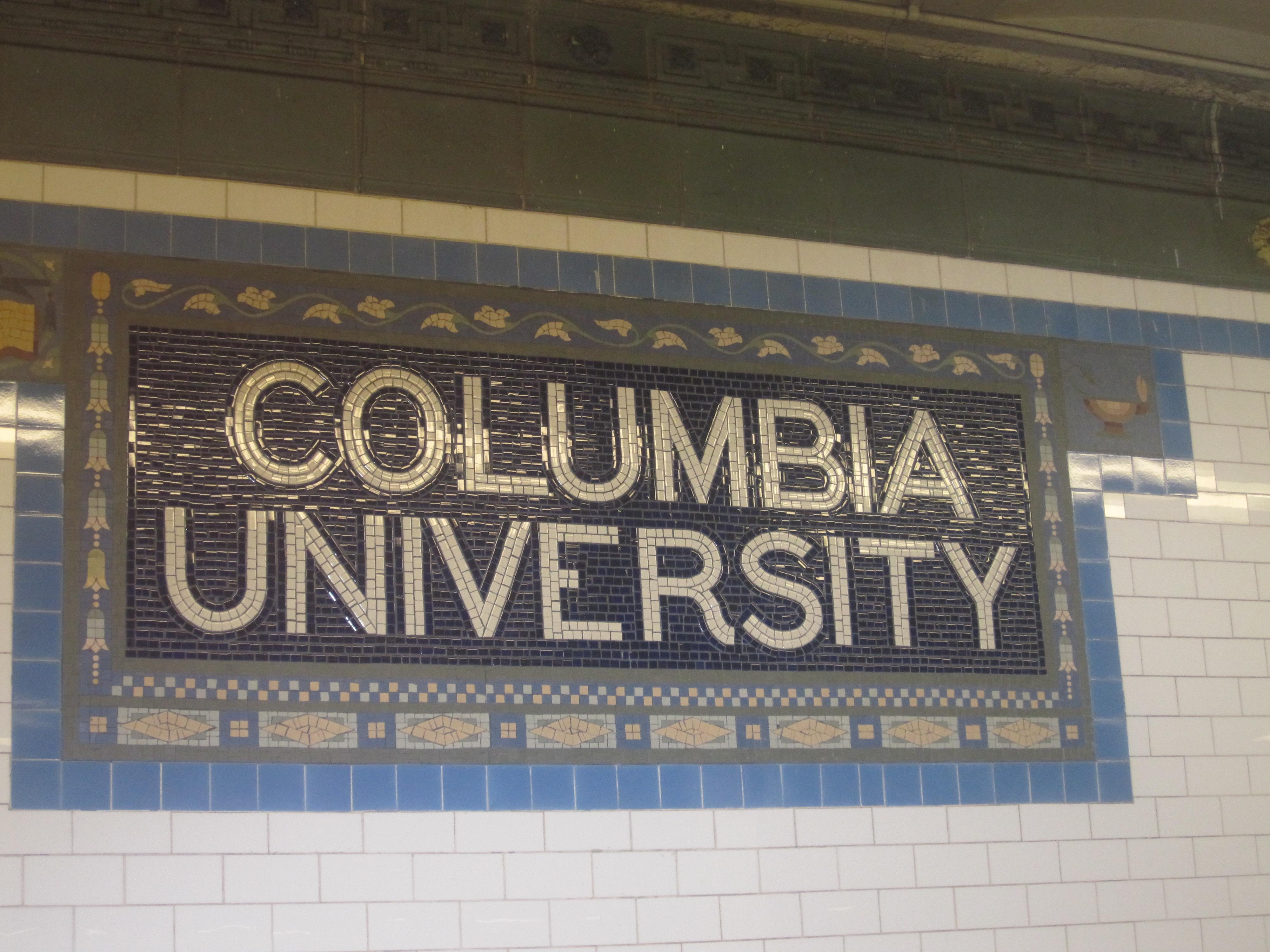 Columbia University sign in subway station in NYC